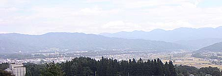 Panorama of Ina City from Nishi Haruchika Bus Stop, Chuo Expressway.